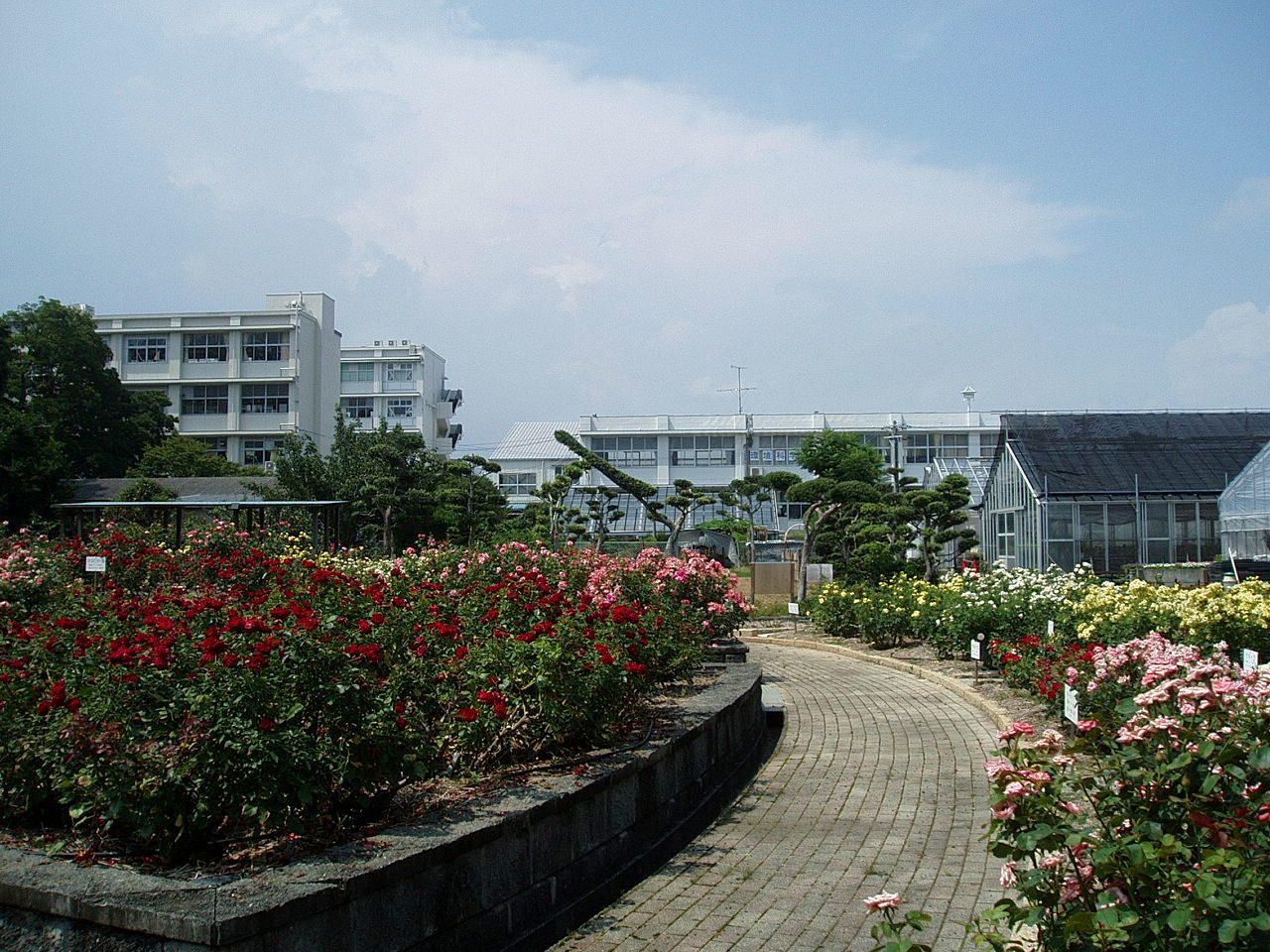 Rose garden of Shizuoka Prefectural Iwata Agricultural High School located in Iwata, Shizuoka, Japan.Taken from outside the site.